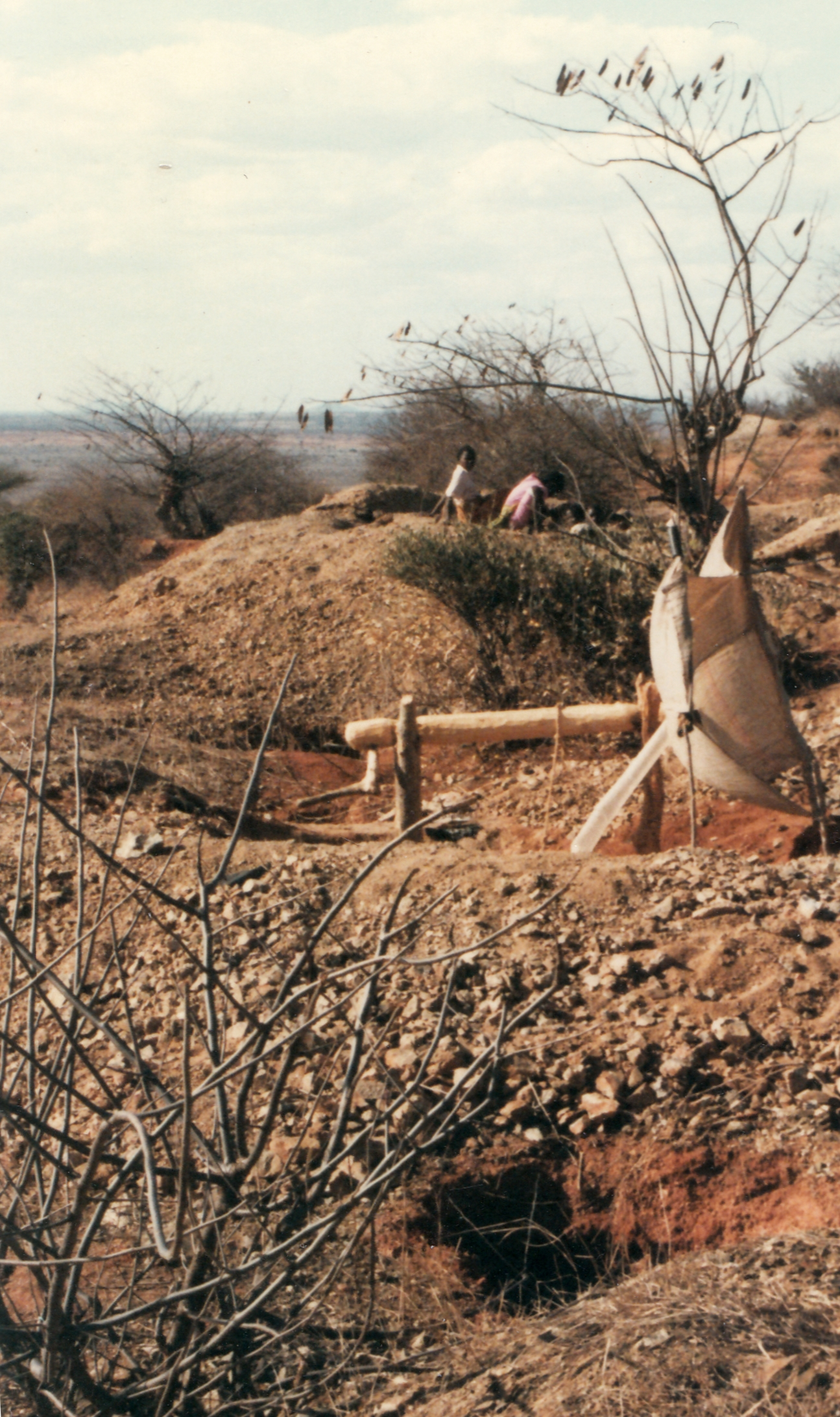 Artisanal gold mines, near Dodoma, Tanzania. Makeshift sails collect fresh air which is led into the small pits